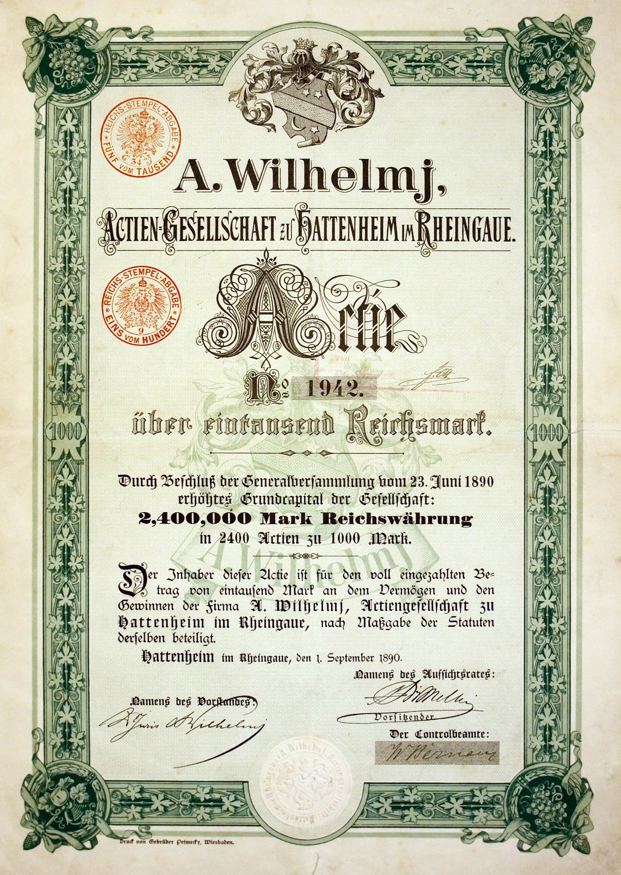 Share of the A. Wilhelmj AG, issued 1. September 1890